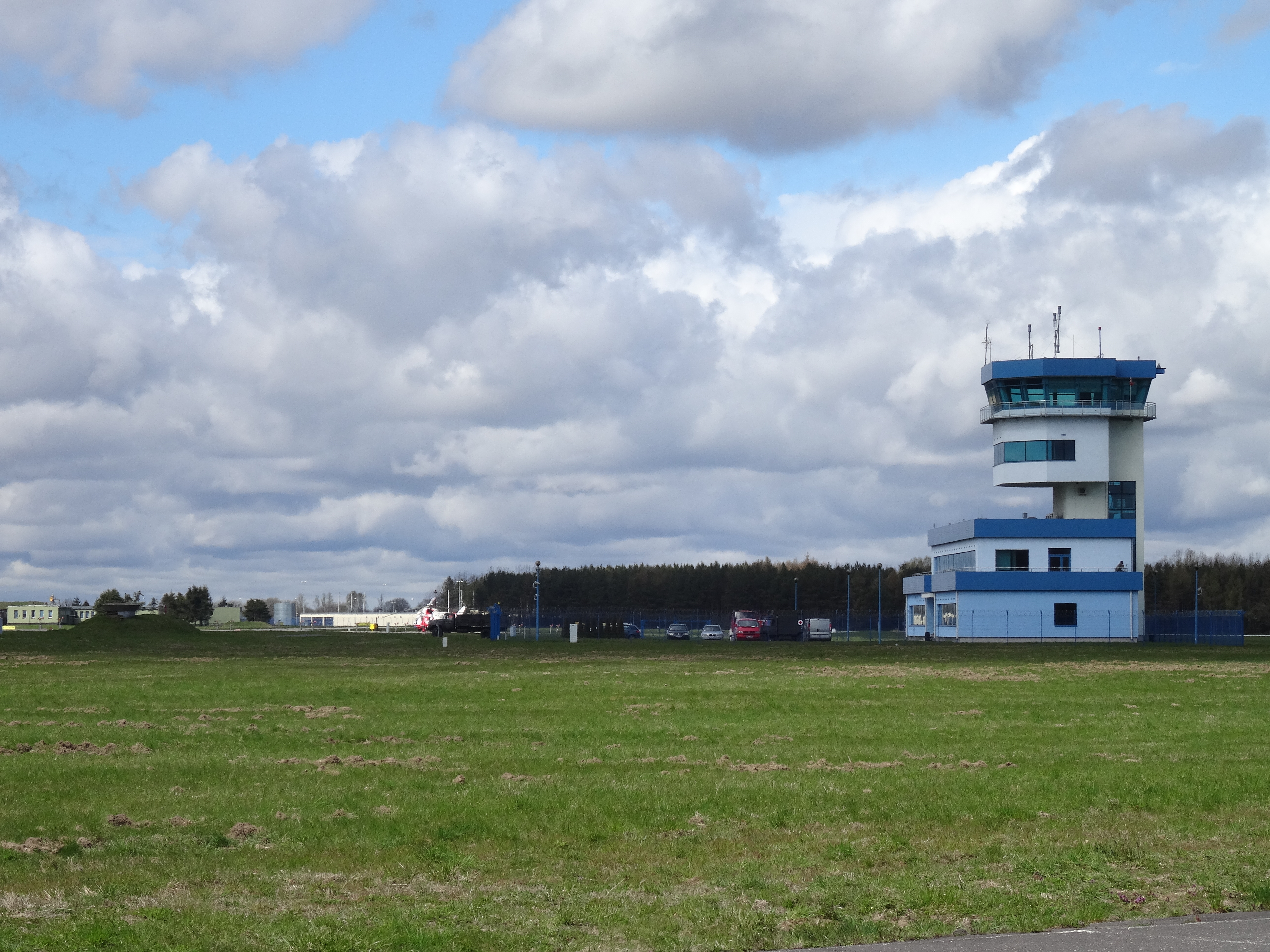 Air traffic control tower Gdynia Babie Doły